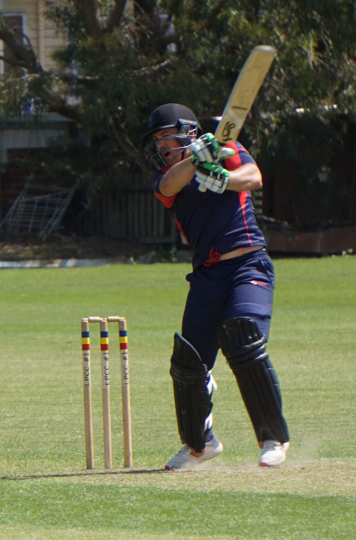 Matthew Bell